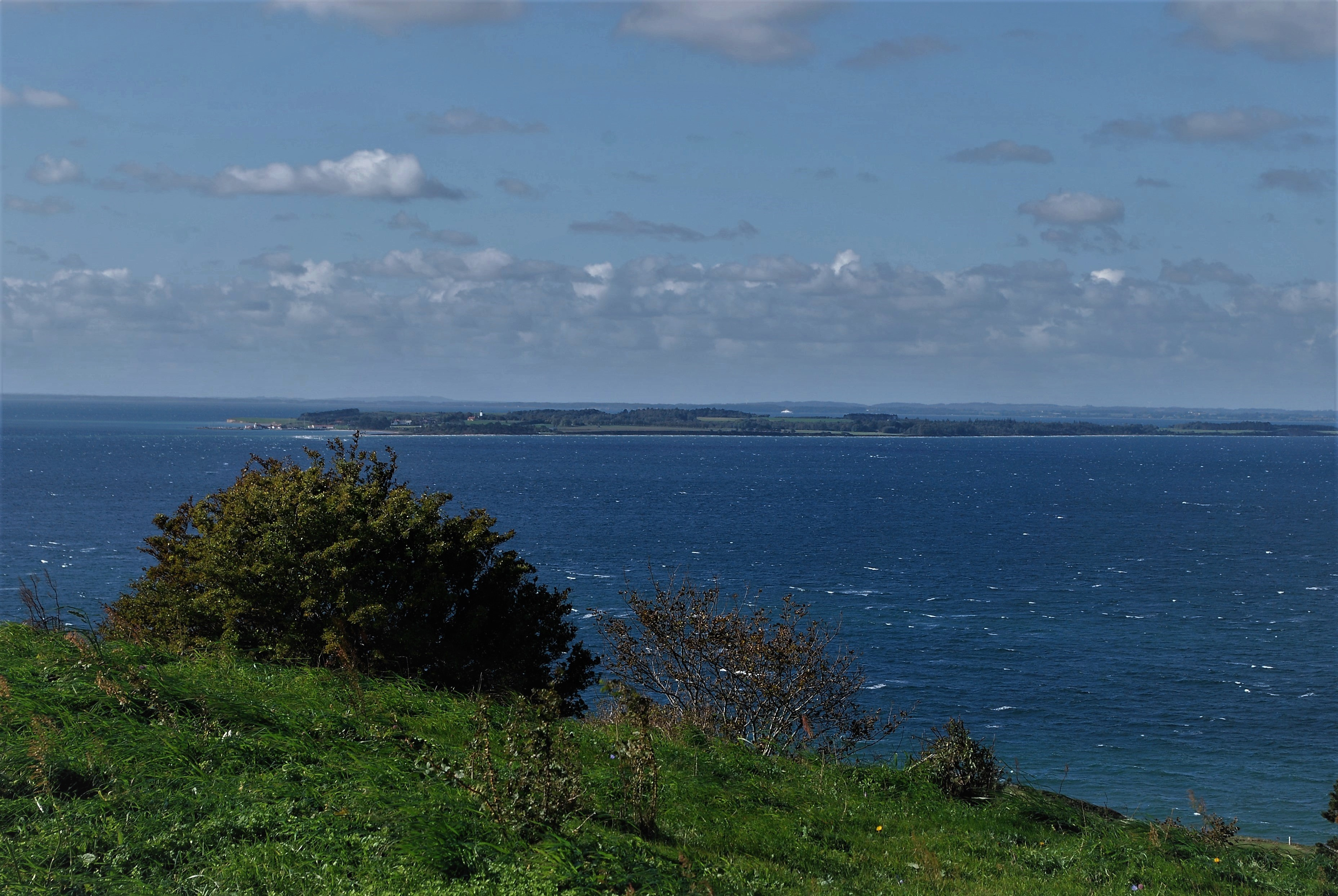 Island of Tunø, seen from Samsø